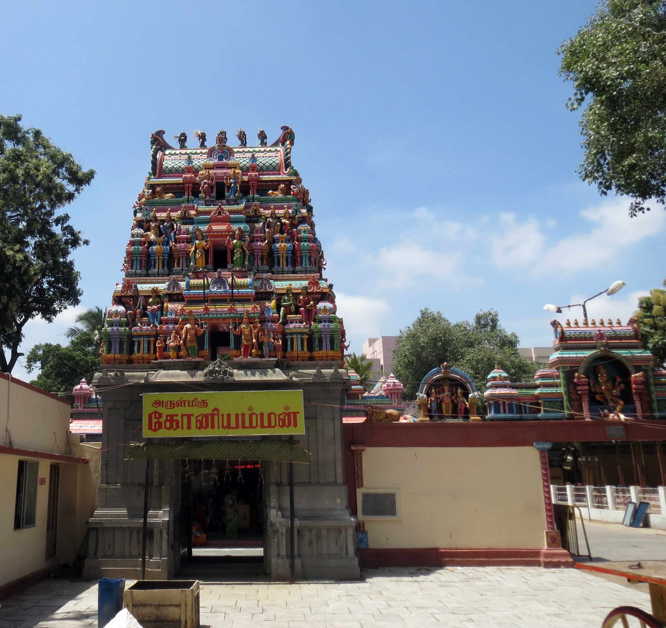 Inner gopuram of Koniamman temple, Coimbatore